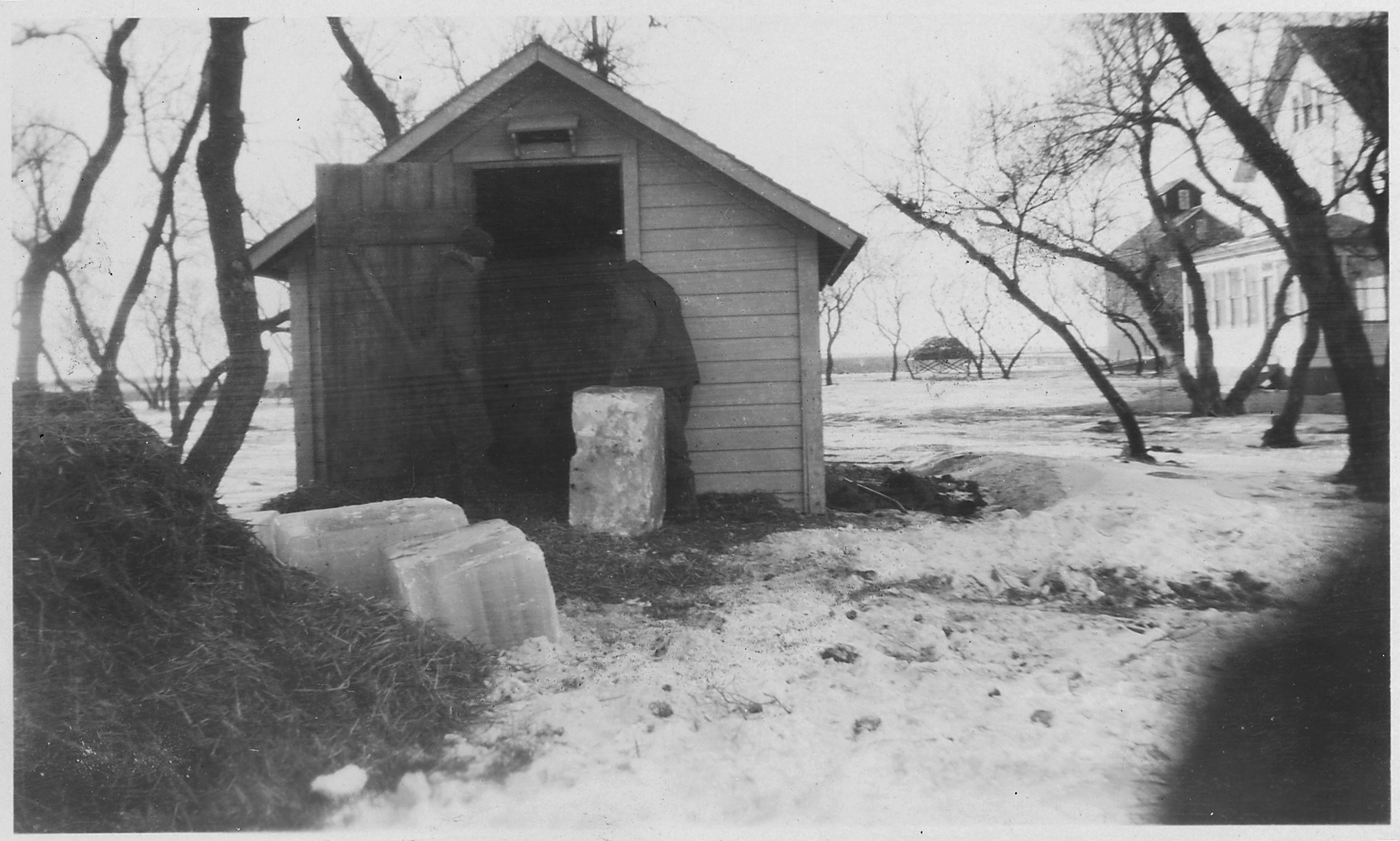 Scope and content: Cutting, transporting and storing ice.